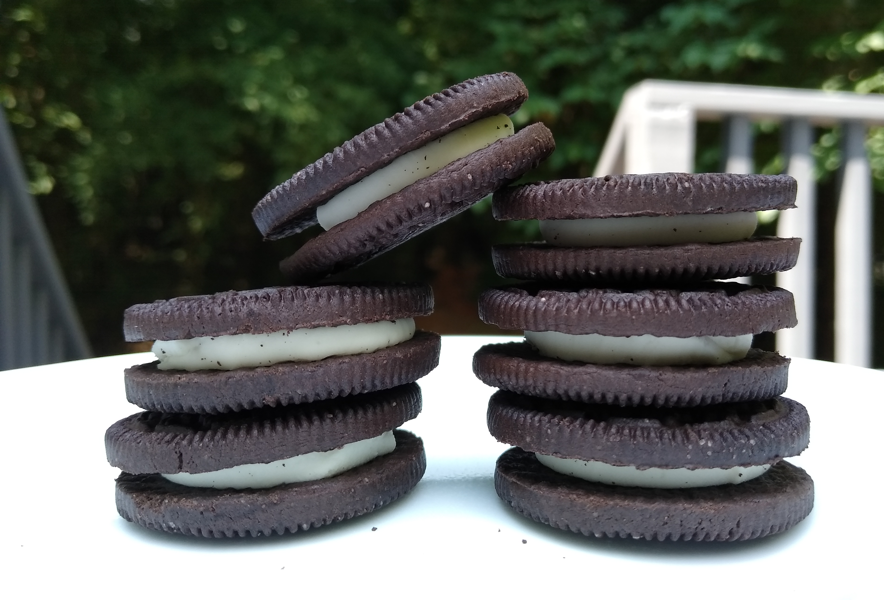 Newman's Own "Newman-O's", creme filled mint chocolate cookies. "Hint-O-Mint" flavor.